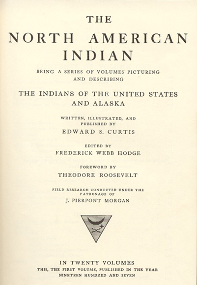 First page of first edition of The North American Indian (1907).